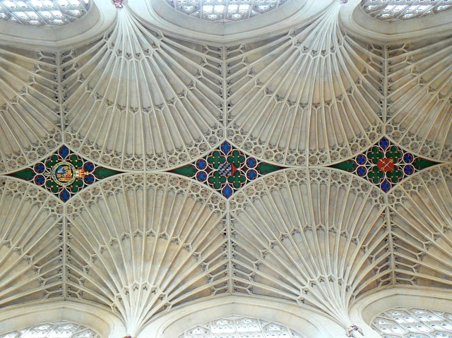 Bath Abbey, ceiling The ceiling is in very good order. It is entirely possible that it has been repainted in the not too distant past.